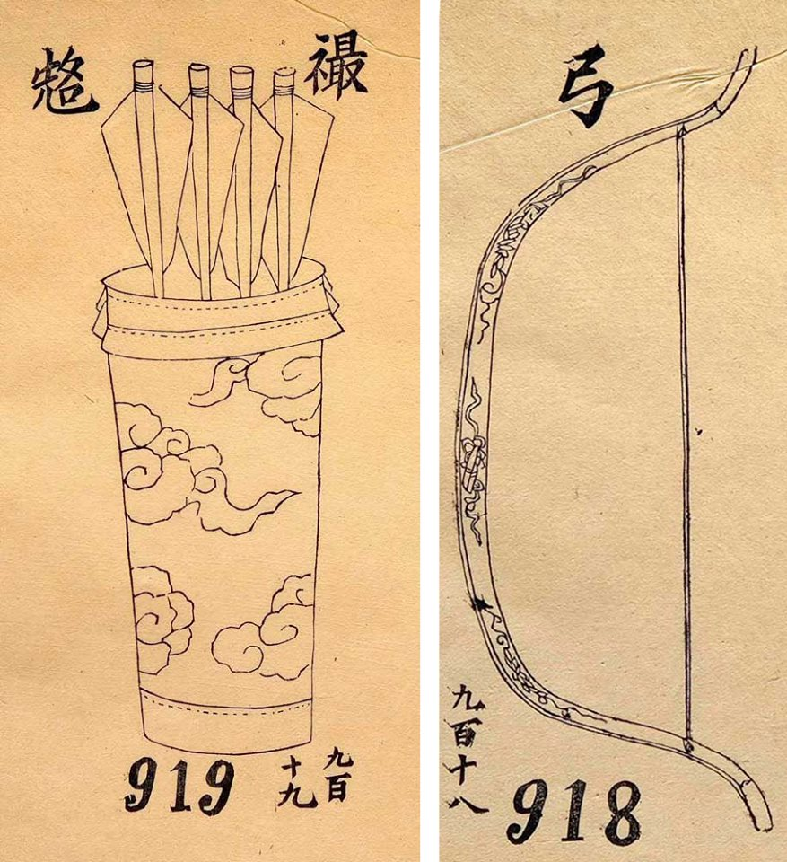 Technique du Peuple Annamite